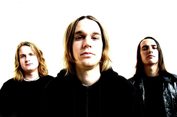 Third Brigade